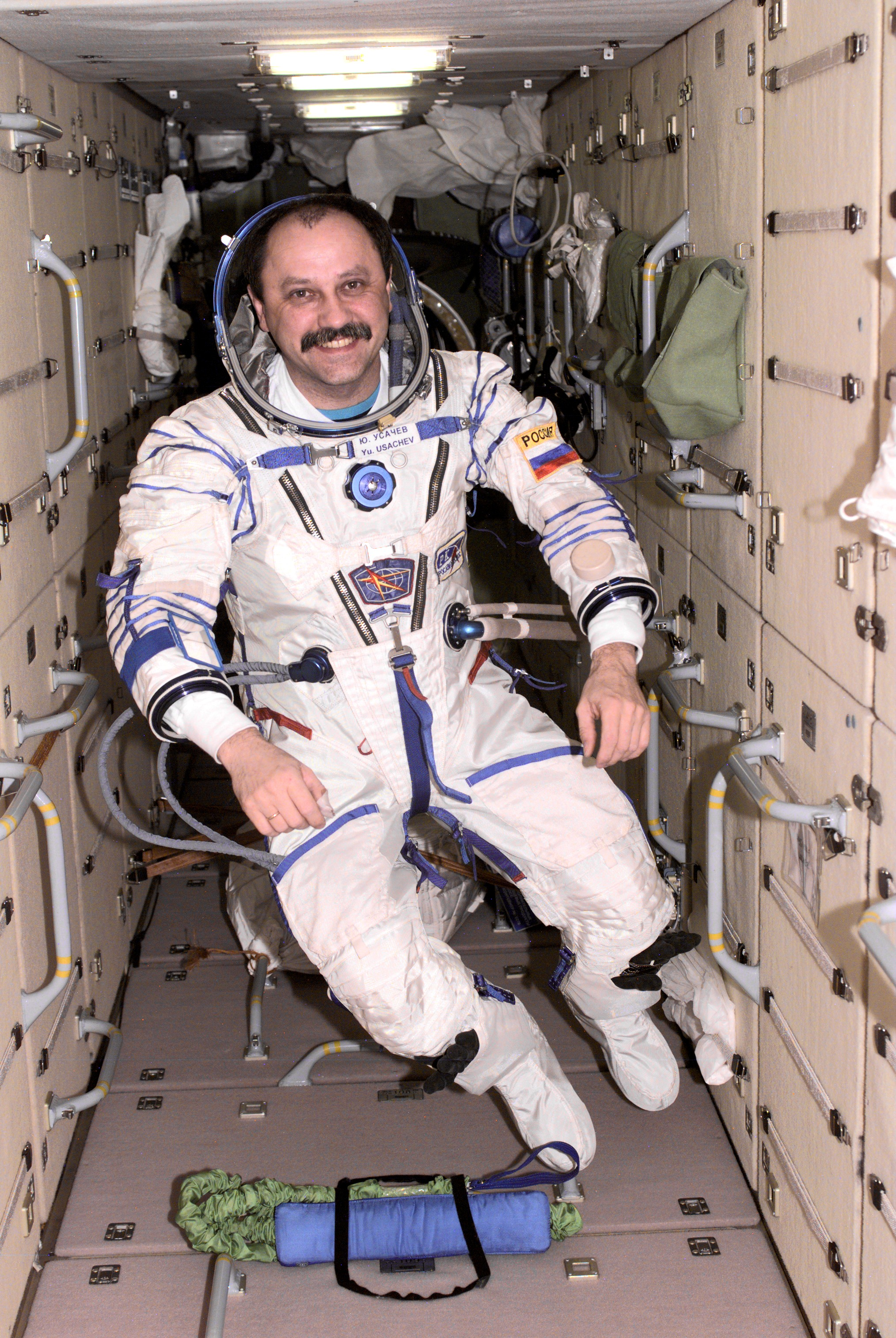 Cosmonaut Yury V. Usachev, Expedition Two mission commander, dons a Russian Sokol suit in the Zarya / Functional Cargo Block (FGB) of the International Space Station (ISS). This image was recorded with a digital still camera.